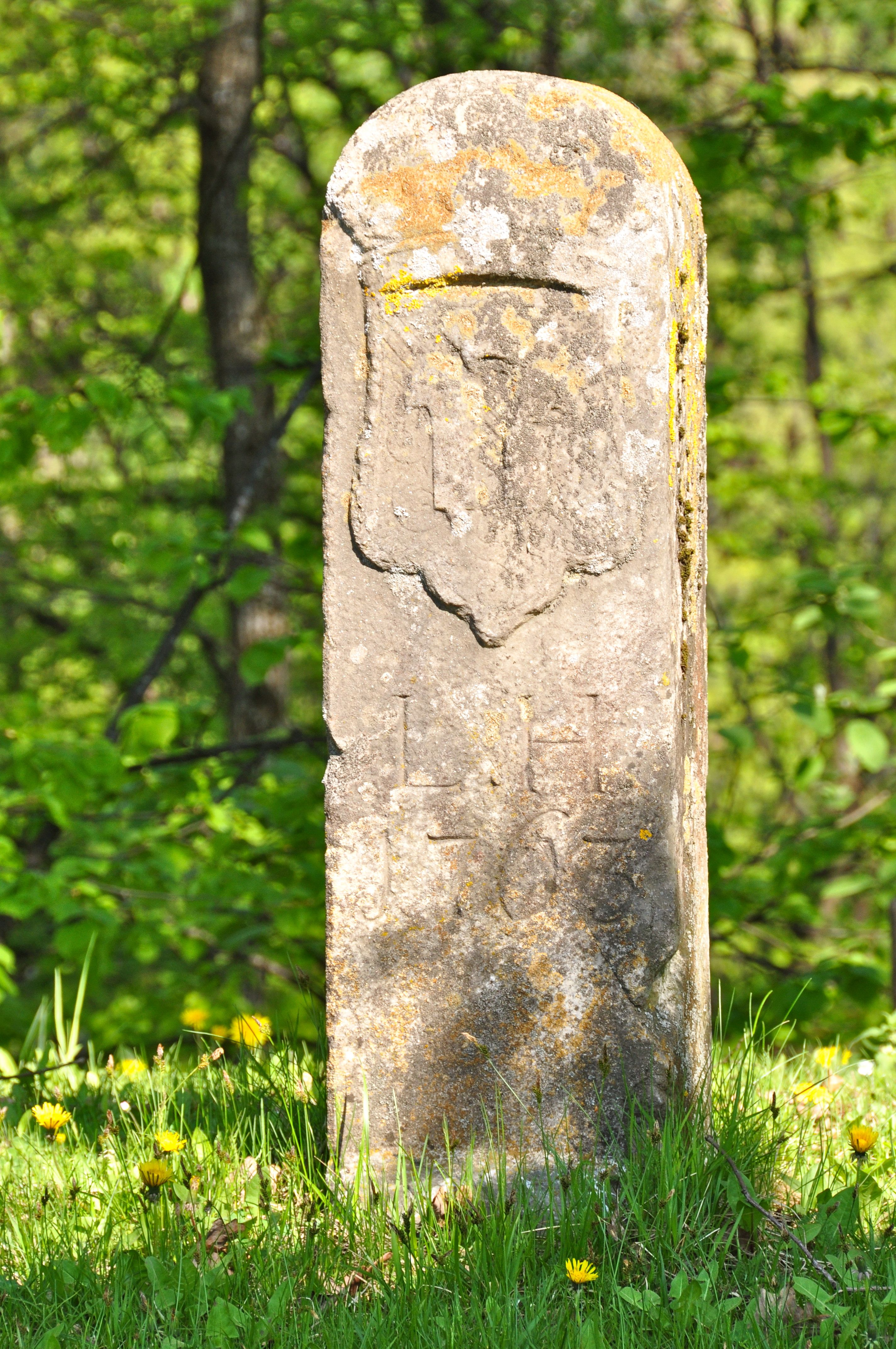 Boundary stone “L.H. 1763” between Hollenburg and Viktring on the Muehlenstrasse #2 at Thal, municipality Köttmannsdorf, Klagenfurt Land, Carinthia, Austria